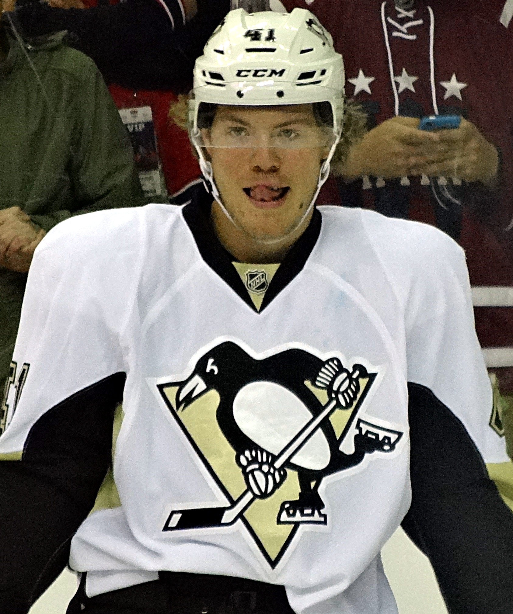 Pittsburgh Penguins forward Daniel Sprong warms up prior to a game against the Washington Capitals, October 28, 2015, at Verizon Center in Washington, D.C.